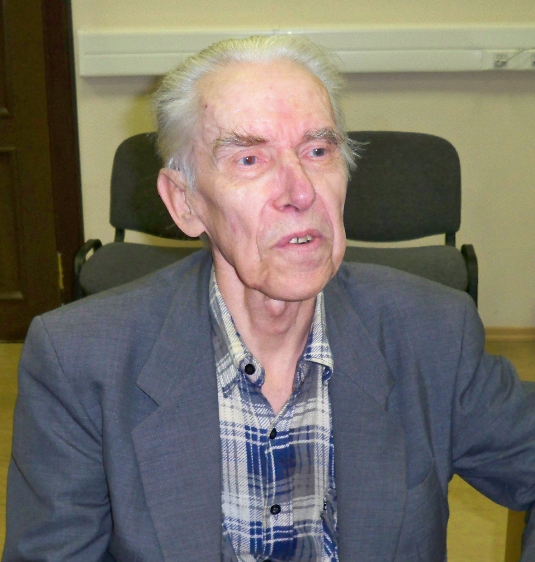 Estonian and Soviet orientalist